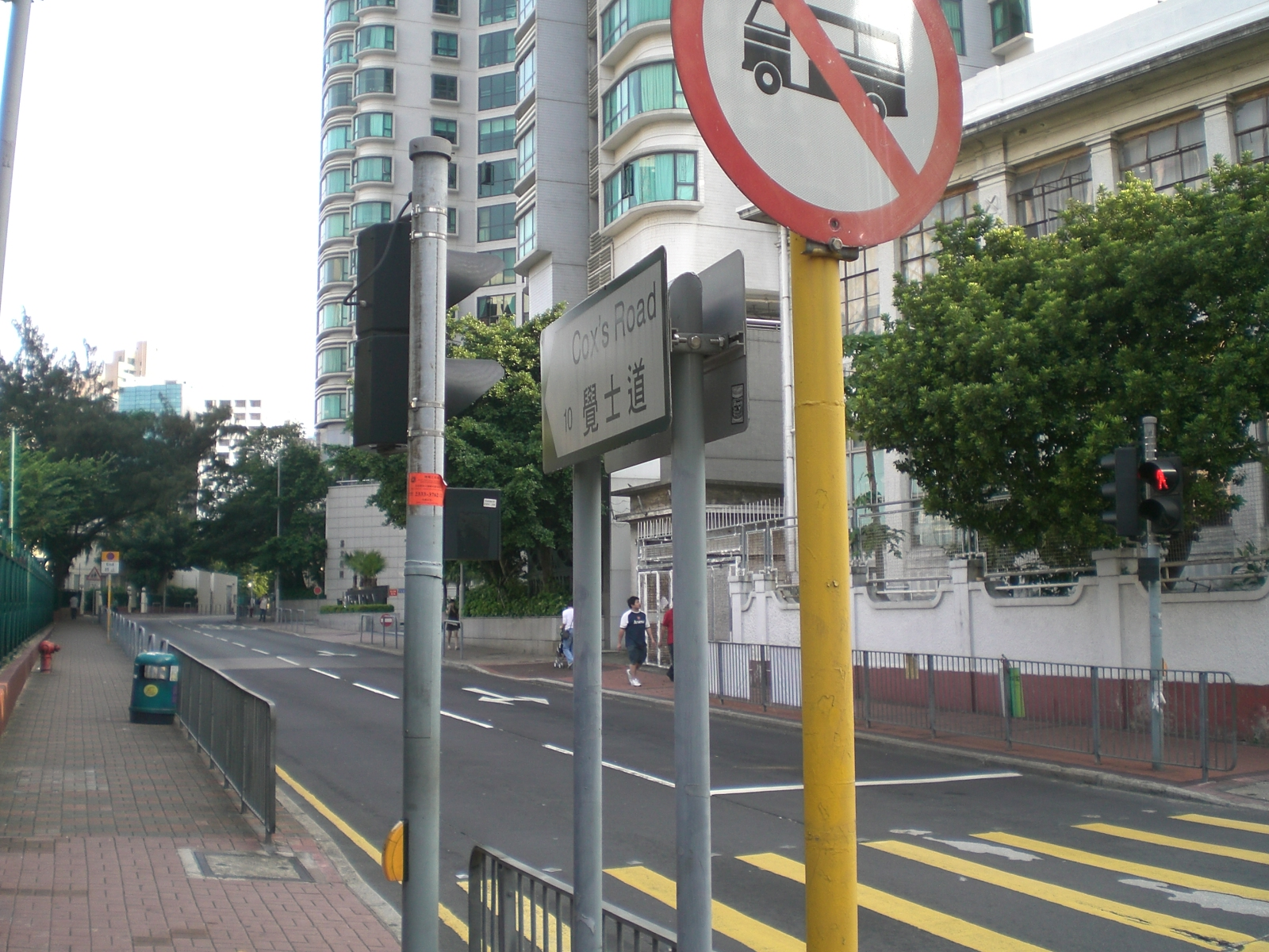 佐敦, Cox's Road, 覺士道